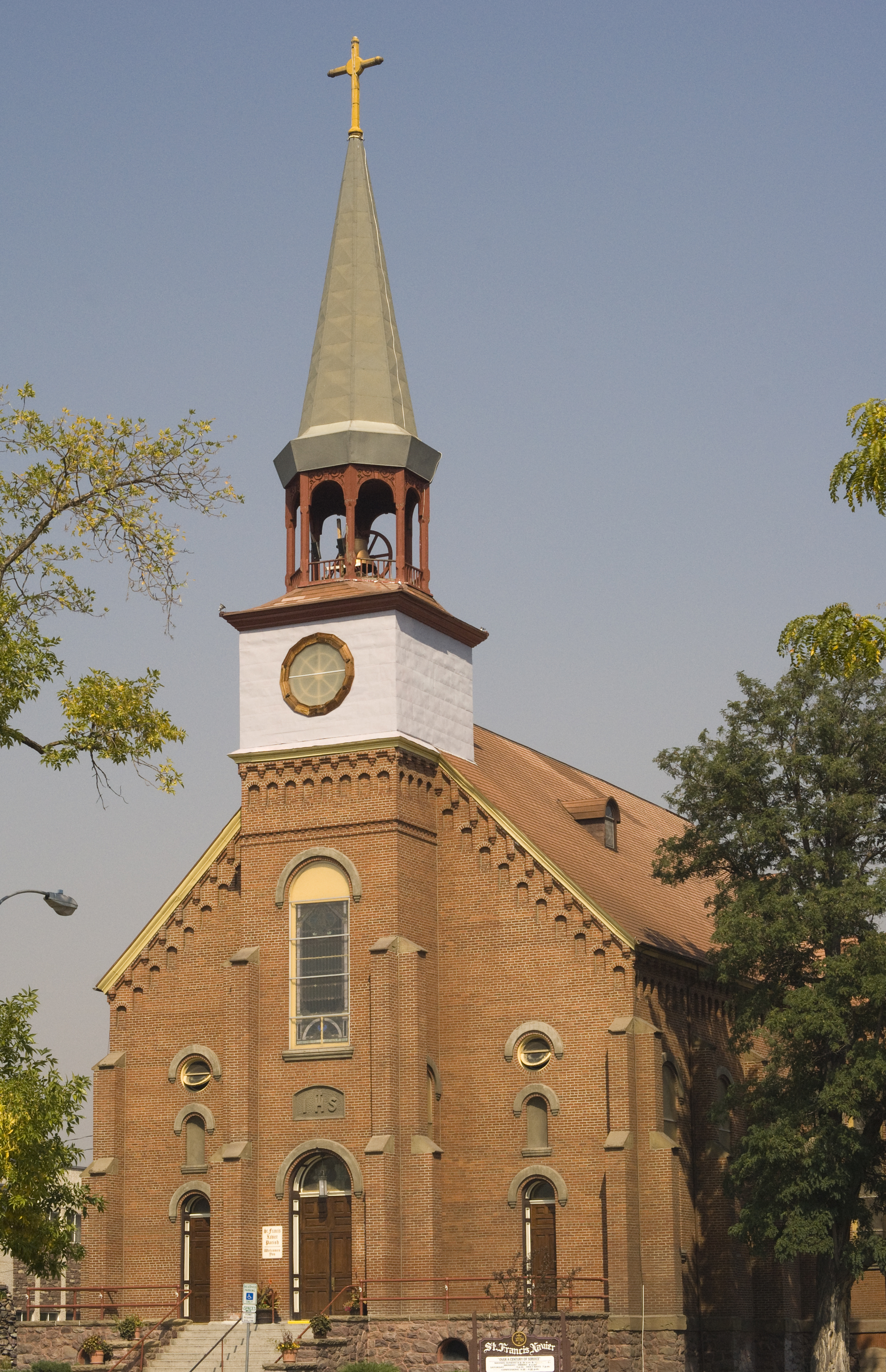 St. Francis Xavier Church exterior